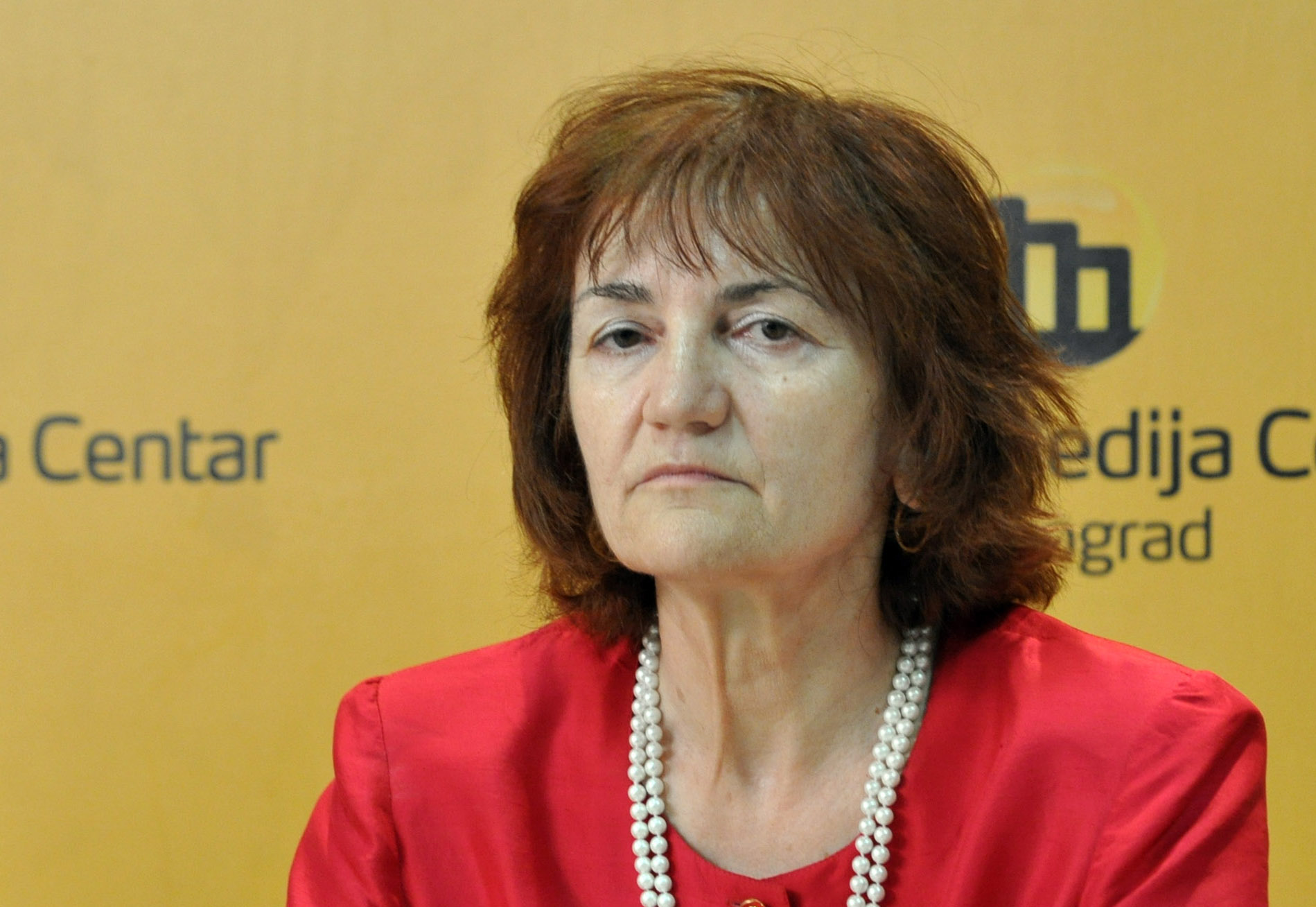 Neda Bokan Српски (ћирилица): Неда Бокан